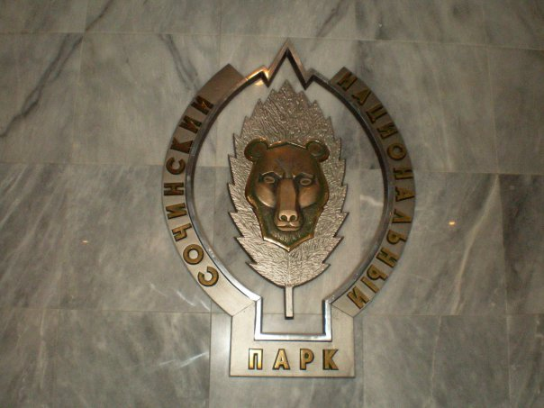 Sochi National park emblem